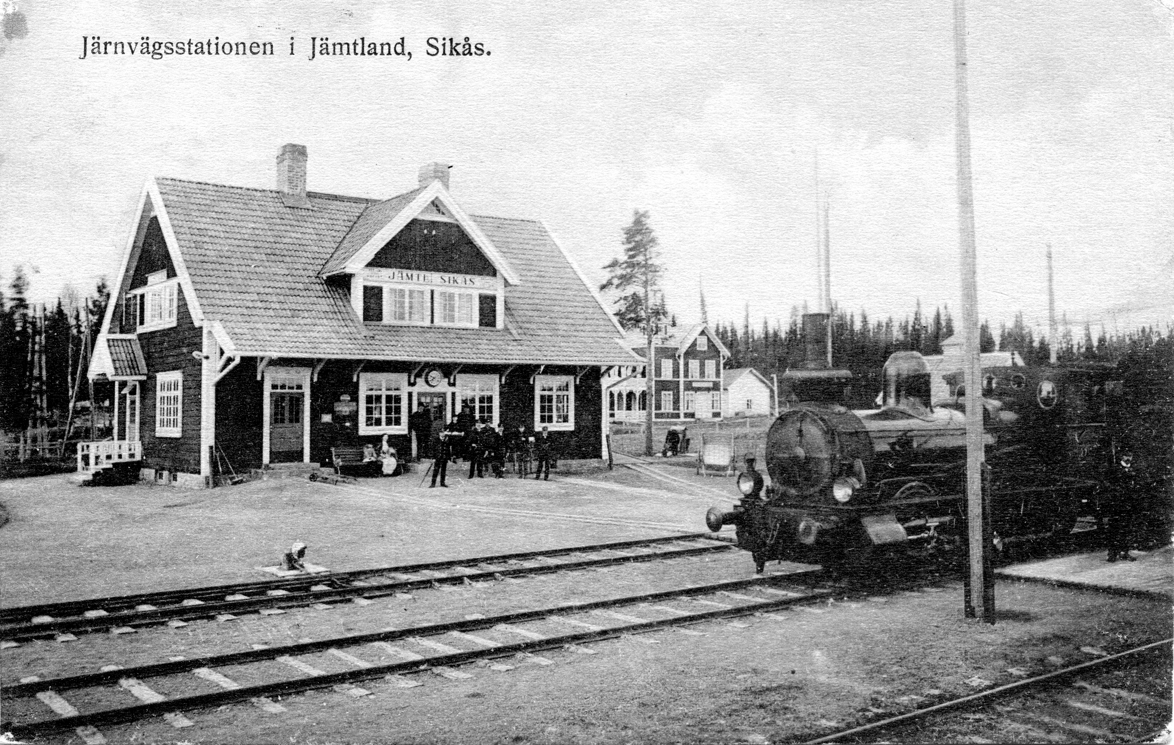 Jämtlands Sikås railway station on Inlandsbanan, circa 1915.